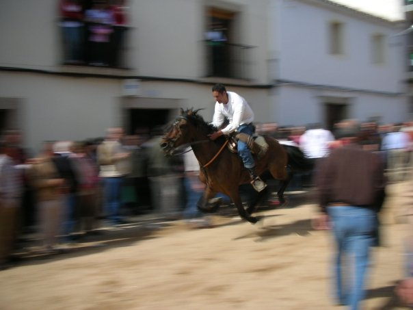 A horseman running down La Corredera street in Arroyo de la Luz (Cáceres)